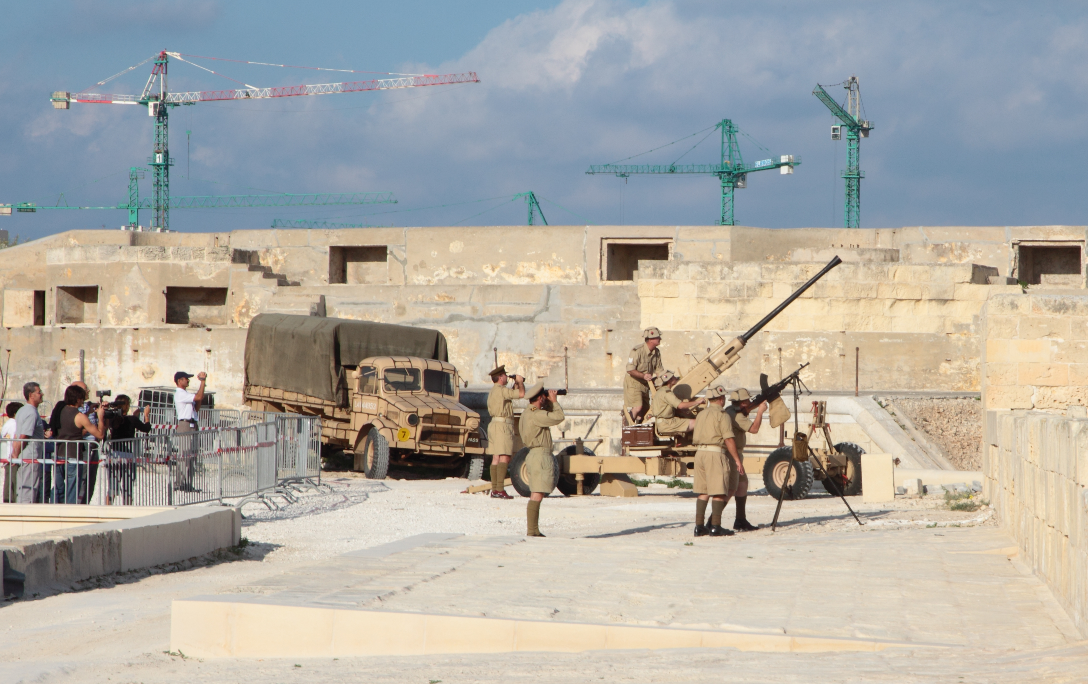 Malta, Manoel Island, Fort Manoel, military presentation